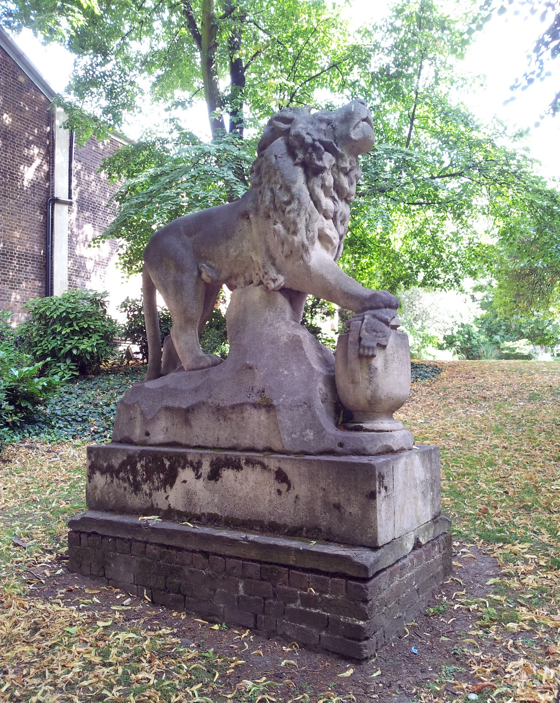 View of Thomas Cribb's tomb in St Mary's Gardens, the former churchyard of the 18th-century parish church of St Mary Magdalene, Woolwich, South East London. The wall is the backwall of the Odeon Cinema.